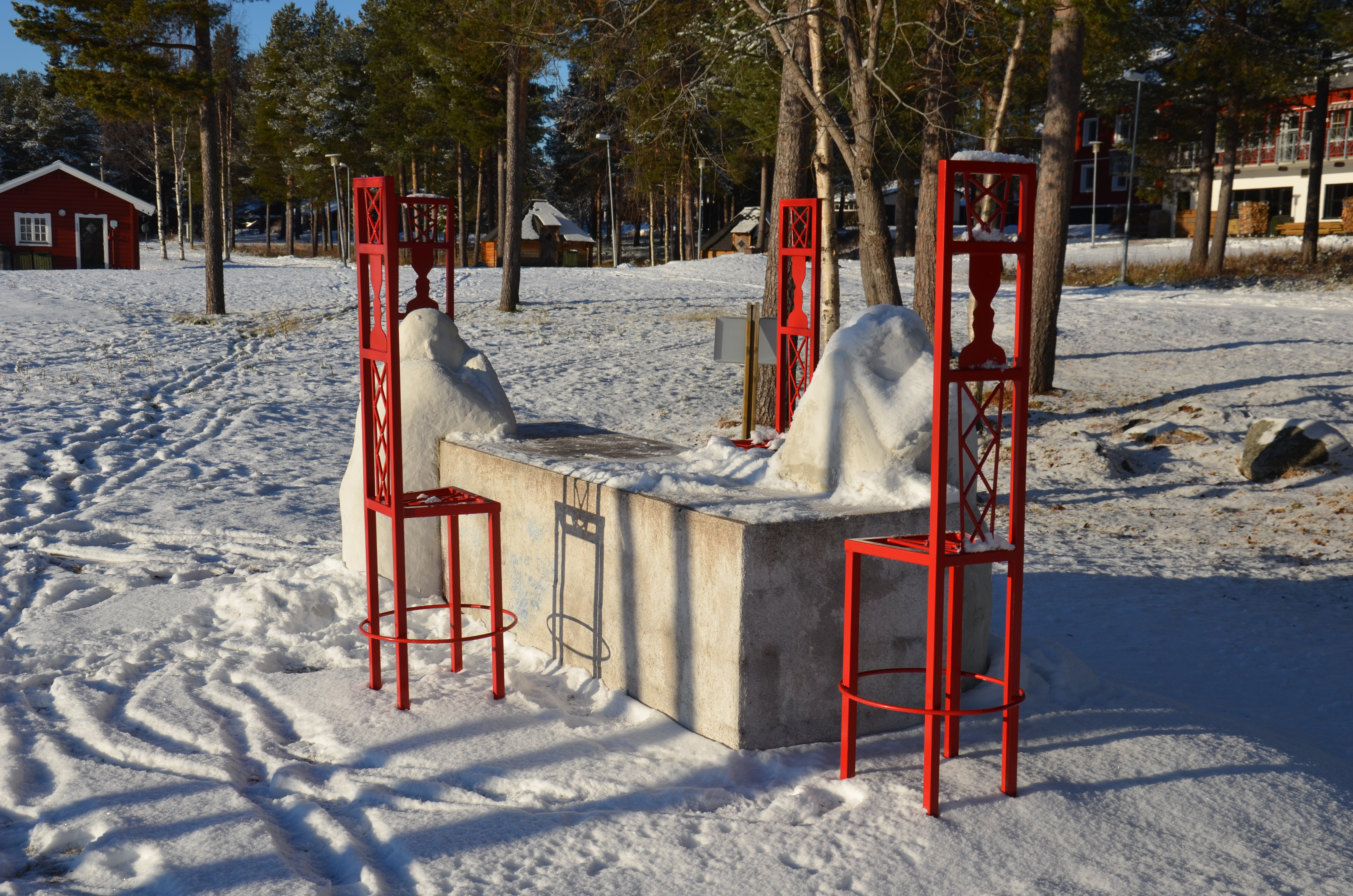 Annelise Josefsens Morgonstund i Jokkmokk